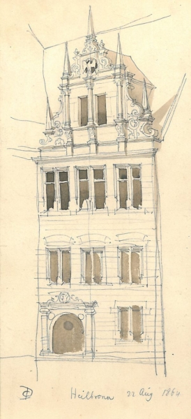 Conrad_v._Dollinger, 19. Jahrhundert